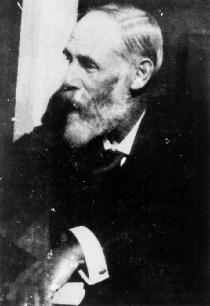 Henry Plantaganet Somerset